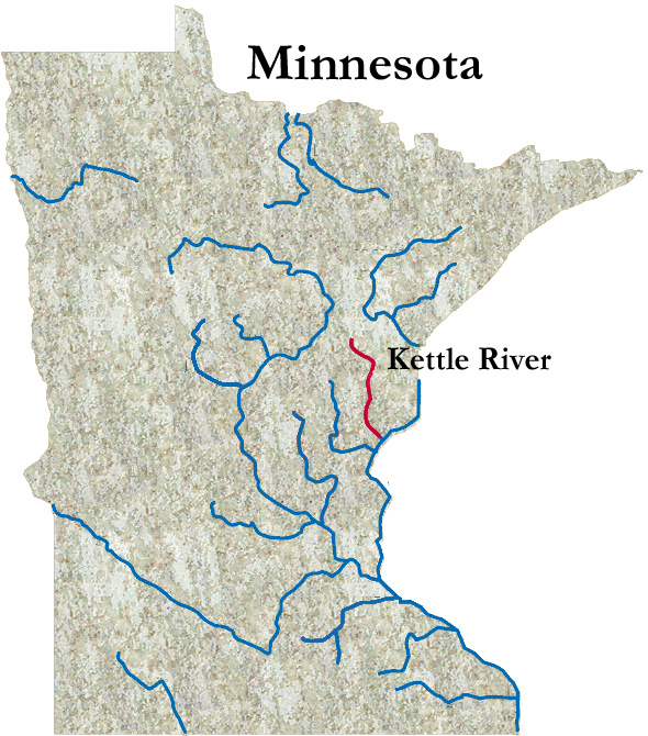 Map of the Kettle river in Minnesota. Photoshop 7.0, released into public domain